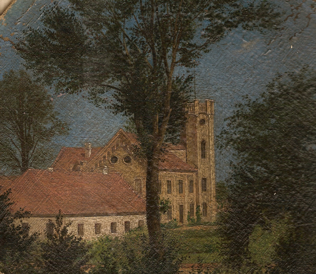 castle in Kvasetice year 1892 - region Havlíčkův Brod